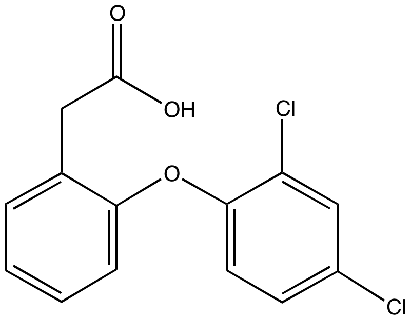 Structure of Fenclofenac